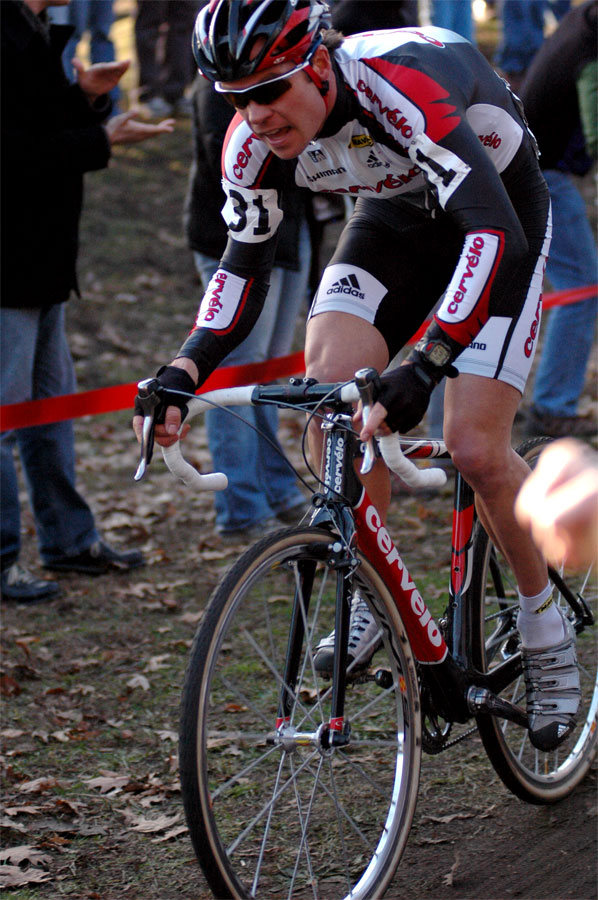 Jonathan Page at the 2006 Cyclocross National Championships on his way to 2nd - 20061216, by David Chiu